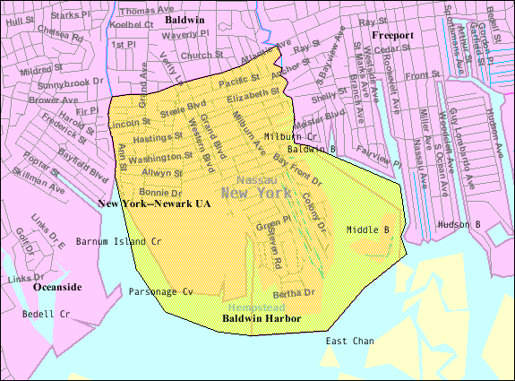 U.S. Census 2000 reference map for Baldwin Harbor, New York